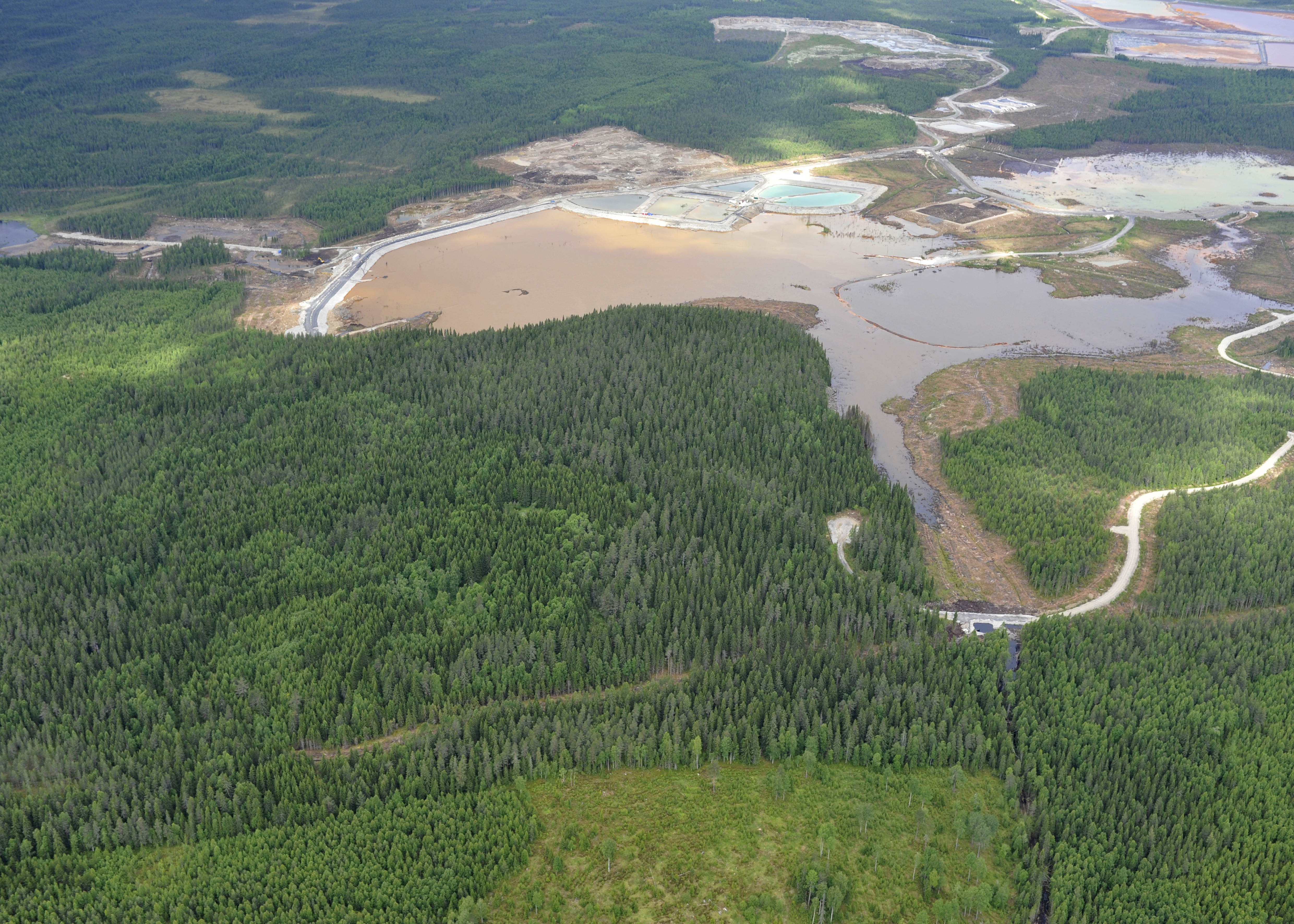 Aerial photograph of Talvivaara mine in Sotkamo, Finland. June 2013.